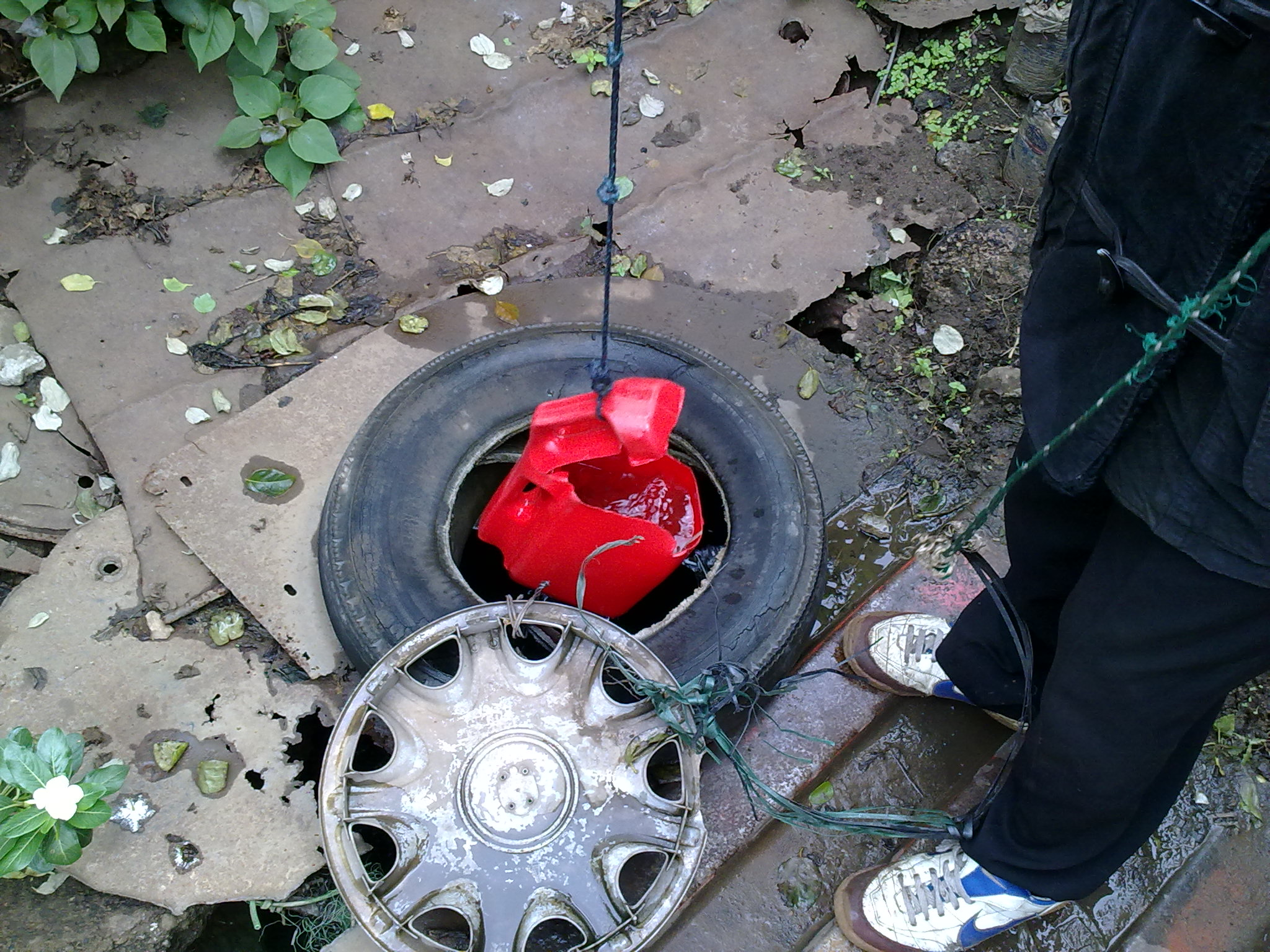 shallow well to draw ground water. the ground water table is high in this area